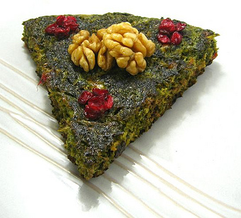 Persian dish